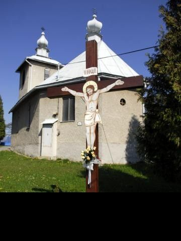 wooden church